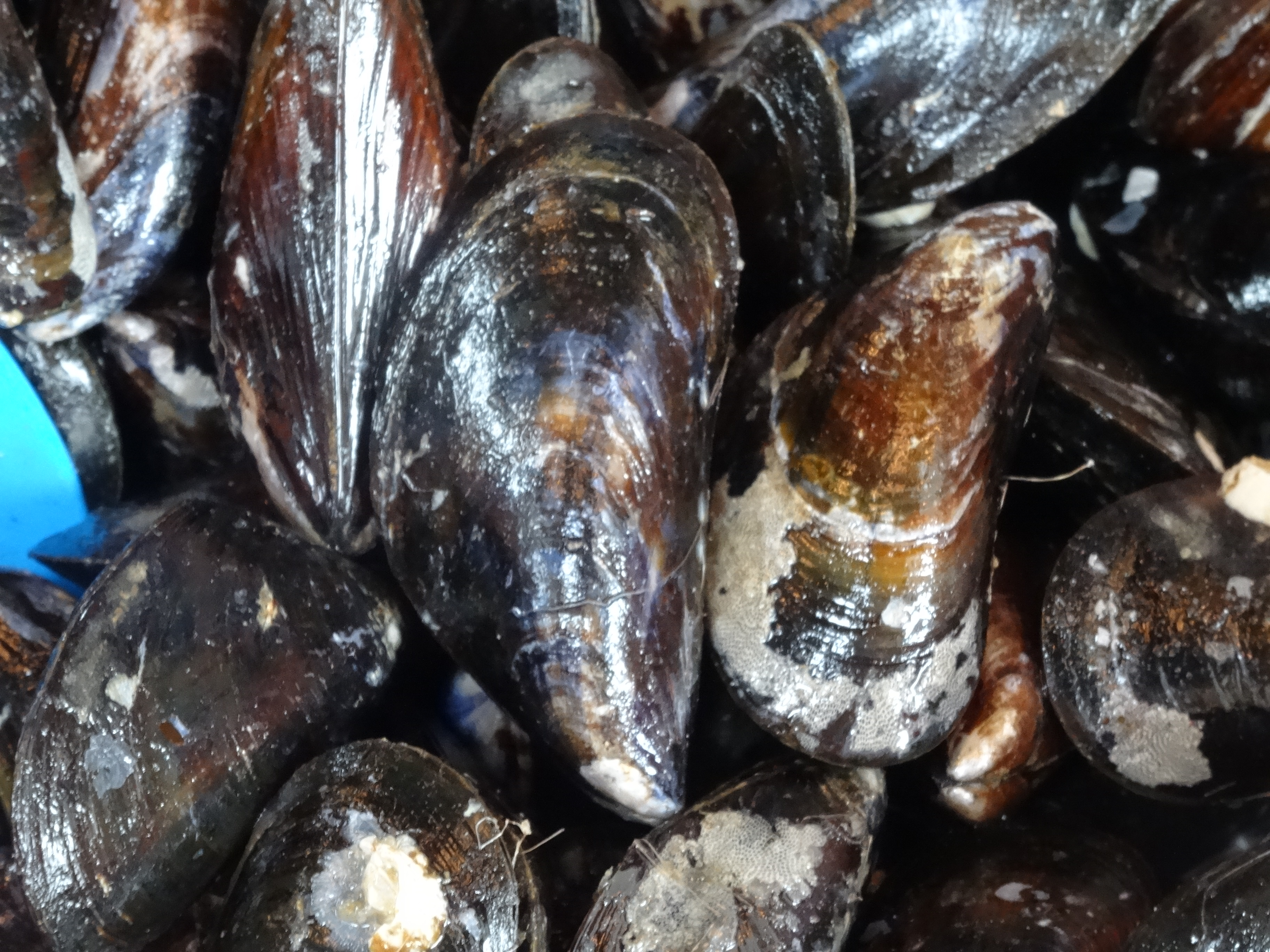 Blue mussels from Yerseke, the Netherlands